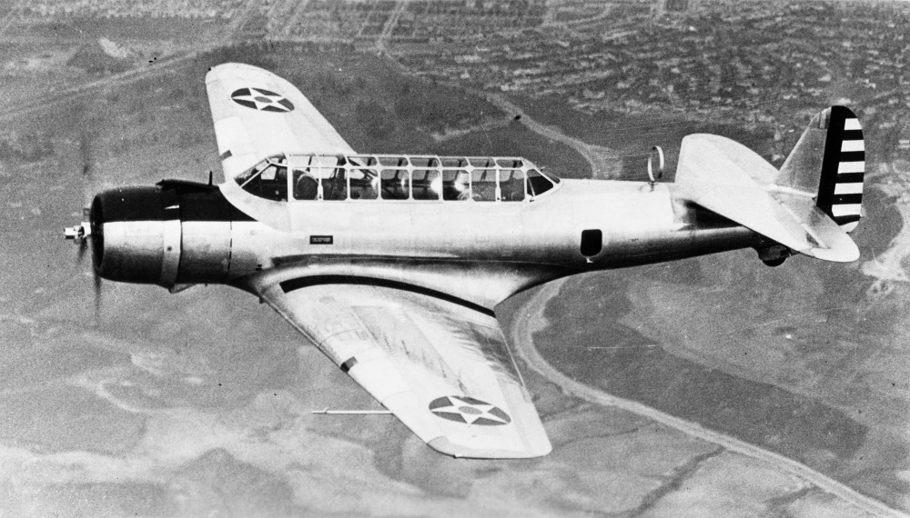 PictionID:40971587 - Title:Vultee YA-19 - Catalog:15_002855 - Filename:15_002855.tif - PictionID:40971474 - Title:Lancer Republic YP-43 - Catalog:15_002846 - Filename:15_002846.tif - Image from the Charles Daniels Photo Collection album "US Army Aircraft."----PLEASE TAG this image with any information you know about it, so that we can permanently store this data with the original image file in our Digital Asset Management System.----SOURCE INSTITUTION: San Diego Air and Space Museum Archive